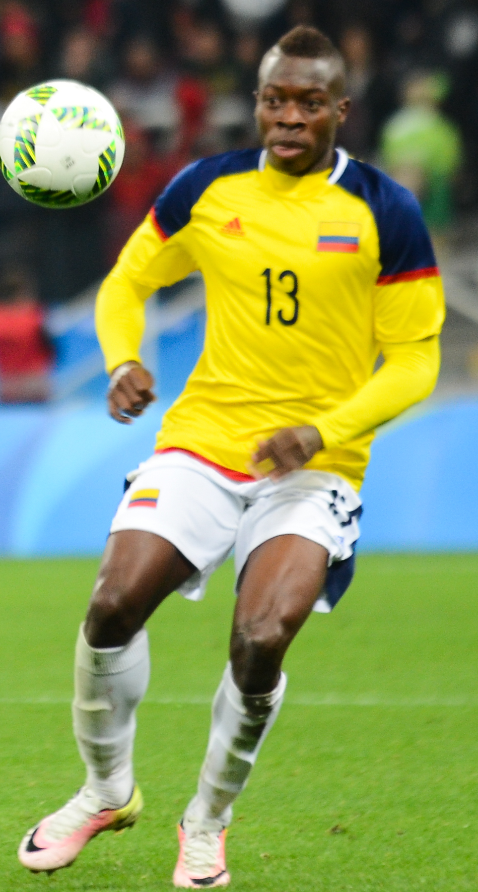 São Paulo - Colômbia vence a Nigéria por 2x0 na Arena Corinthians (Rovena Rosa/Agência Brasil)